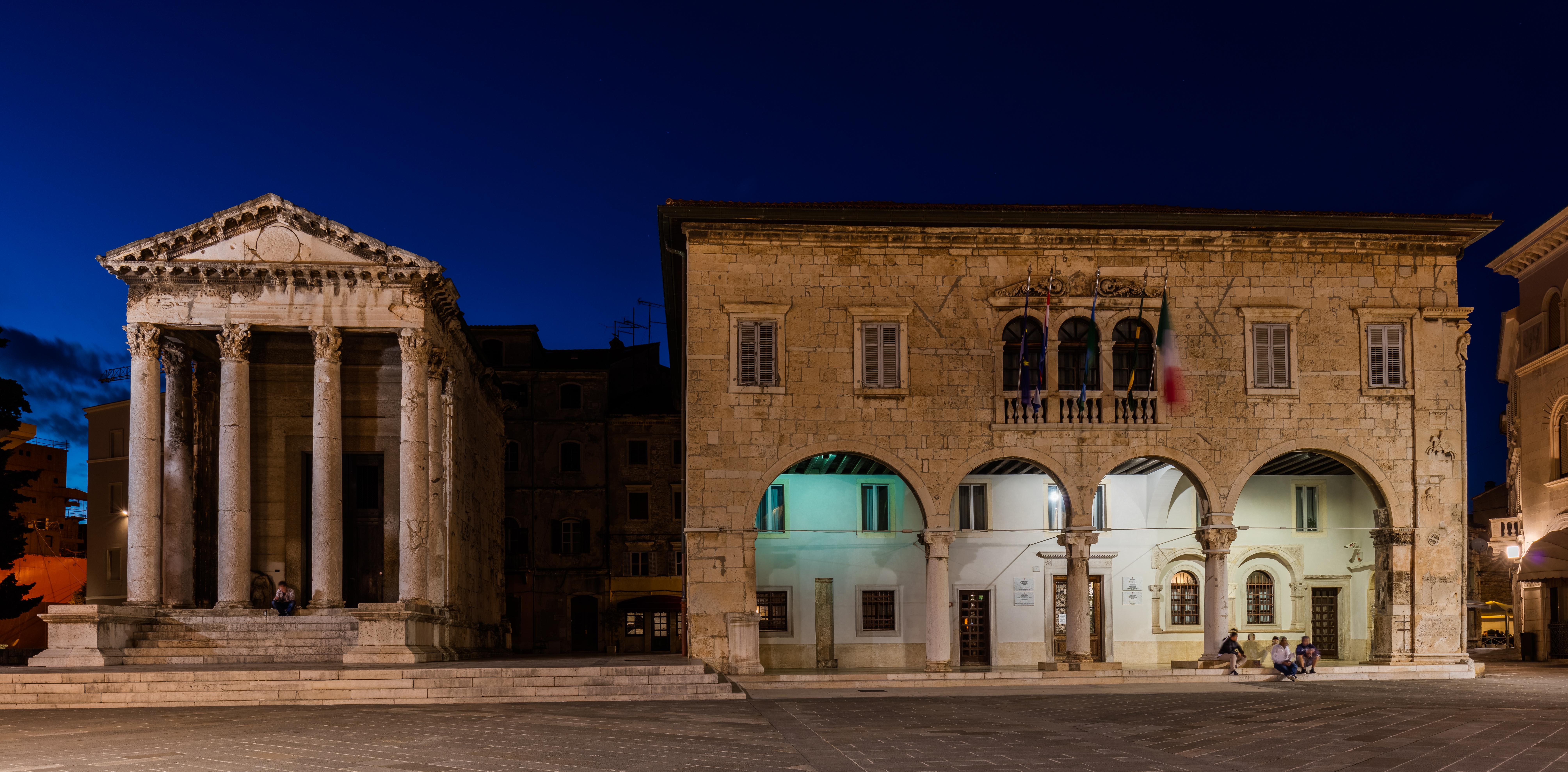 Temple of Roma and Augustus and town hall, Pula, Croatia. This is a a photo of a cultural heritage in Croatia with ID: Z-864